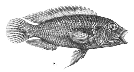 Drawing of a syntype of Haplochromis moeruensis (Boulenger, 1899), a haplochromine cichlid from Lake Mweru, Democratic Republic of Congo